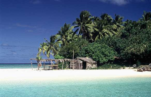 Nuku Island in the southern part of the Vavaʻu Islands, Tonga